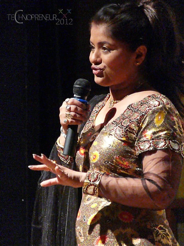 Sudha Chandran speaking at Technopreneur 2012